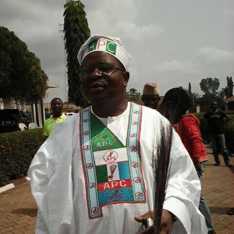 Sen. Ocheja on arrival at the 2015 APC presidential campaign rally in Lokoja, Kogi State